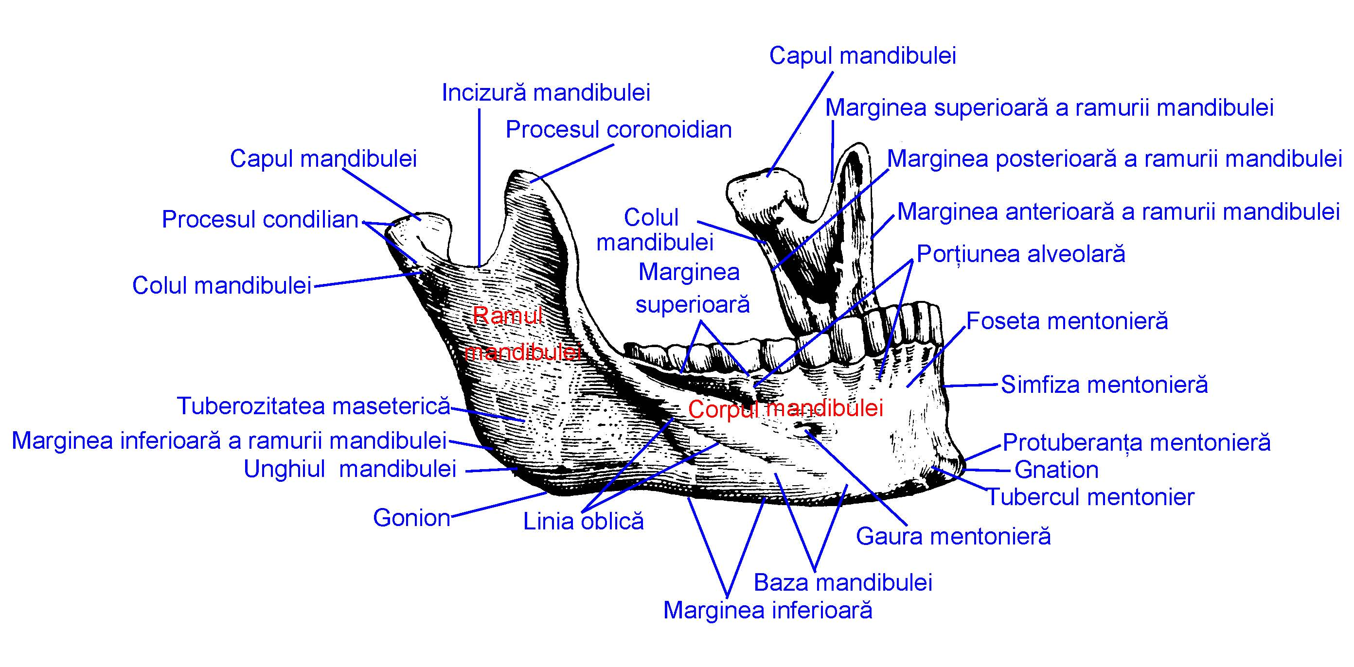 Human mandible